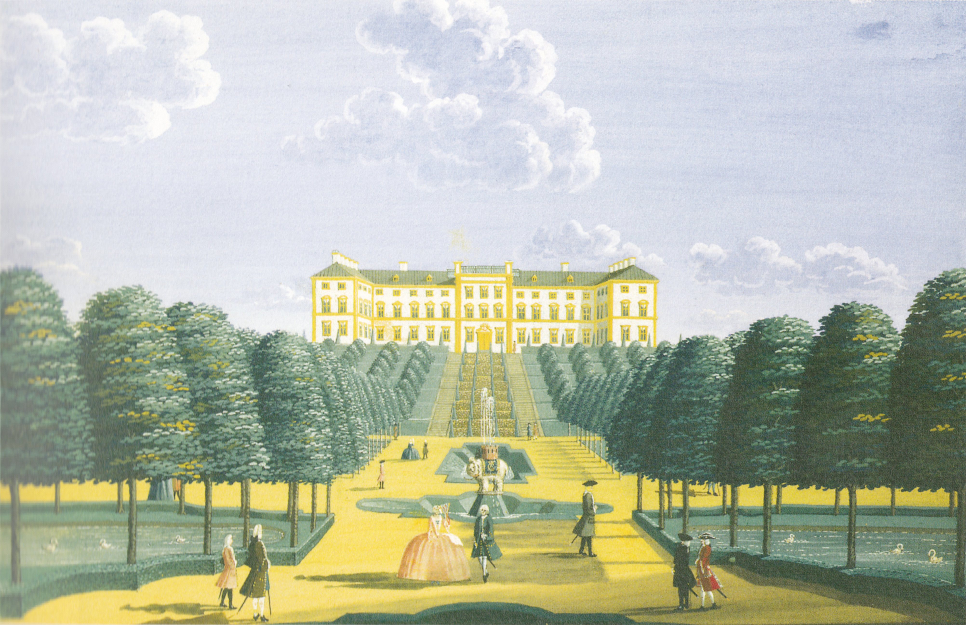 This gouache by Johan Jacob Bruun shows the castle of Frederiksberg at Copenhagen and its garden. The elephant in the front fountain is decorated to represent the Order of the Elephant.